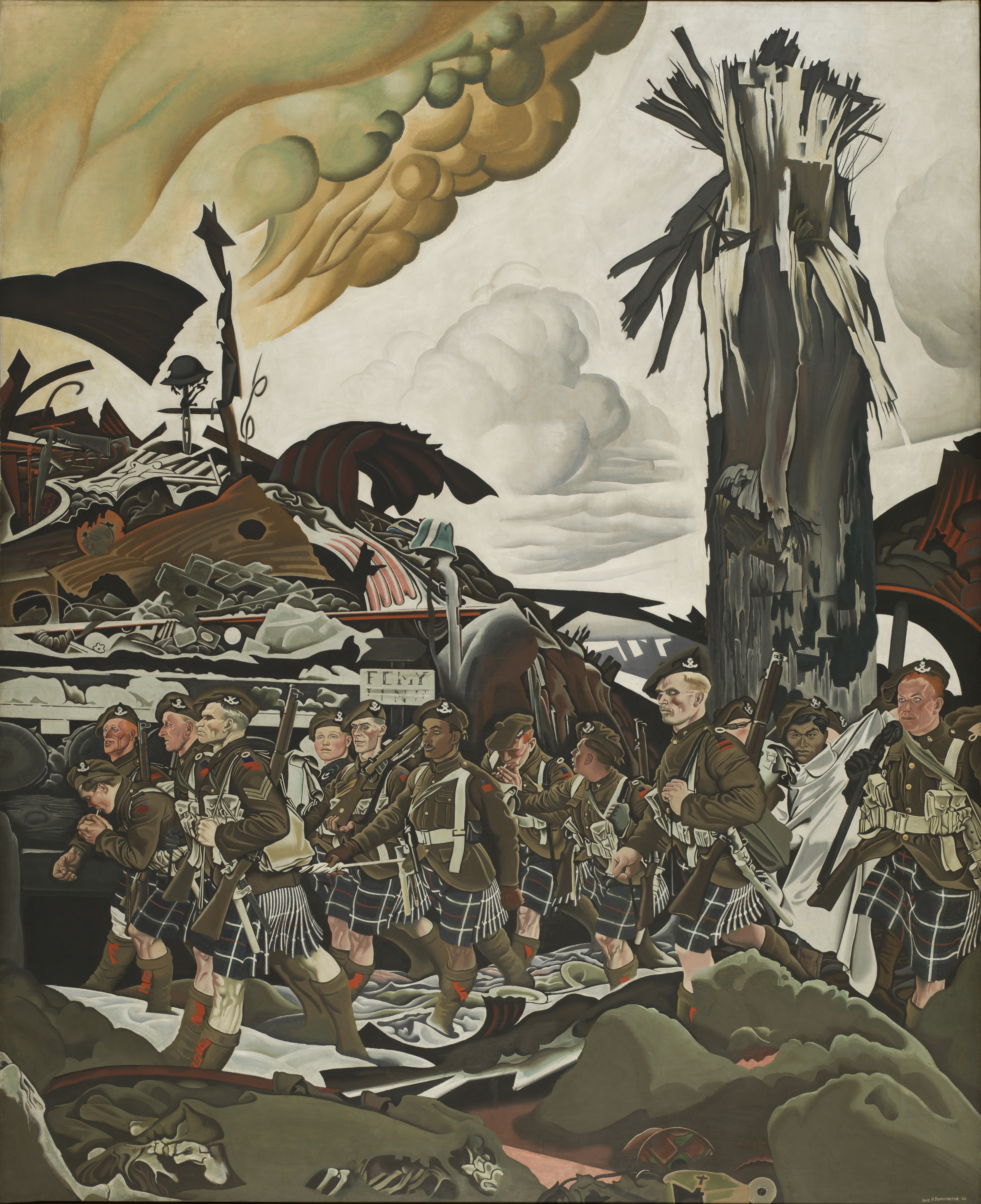 Kilted Canadians of the 16th Battalion, some depicted as pale ghosts, march through a destroyed battlefield of broken bottles, skeletal remains, and informal graves. Eric Kennington originally titled his work The Victims. After its showing in Canada led to objections about the title from the battalion’s commanding officer, Lieutenant-Colonel Cy Peck, Kennington renamed it The Conquerors.